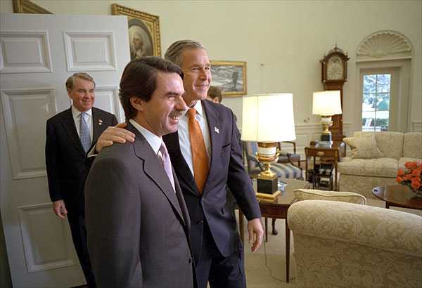 President George W. Bush welcomes the President of Spain Jose Maria Aznar to the Oval Office Nov. 28. "Recently, Spain has arrested al Qaeda members and has shared information about those al Qaeda members," said President Bush in his remarks to the media. "And for that, Mr. President, the American people are very grateful."